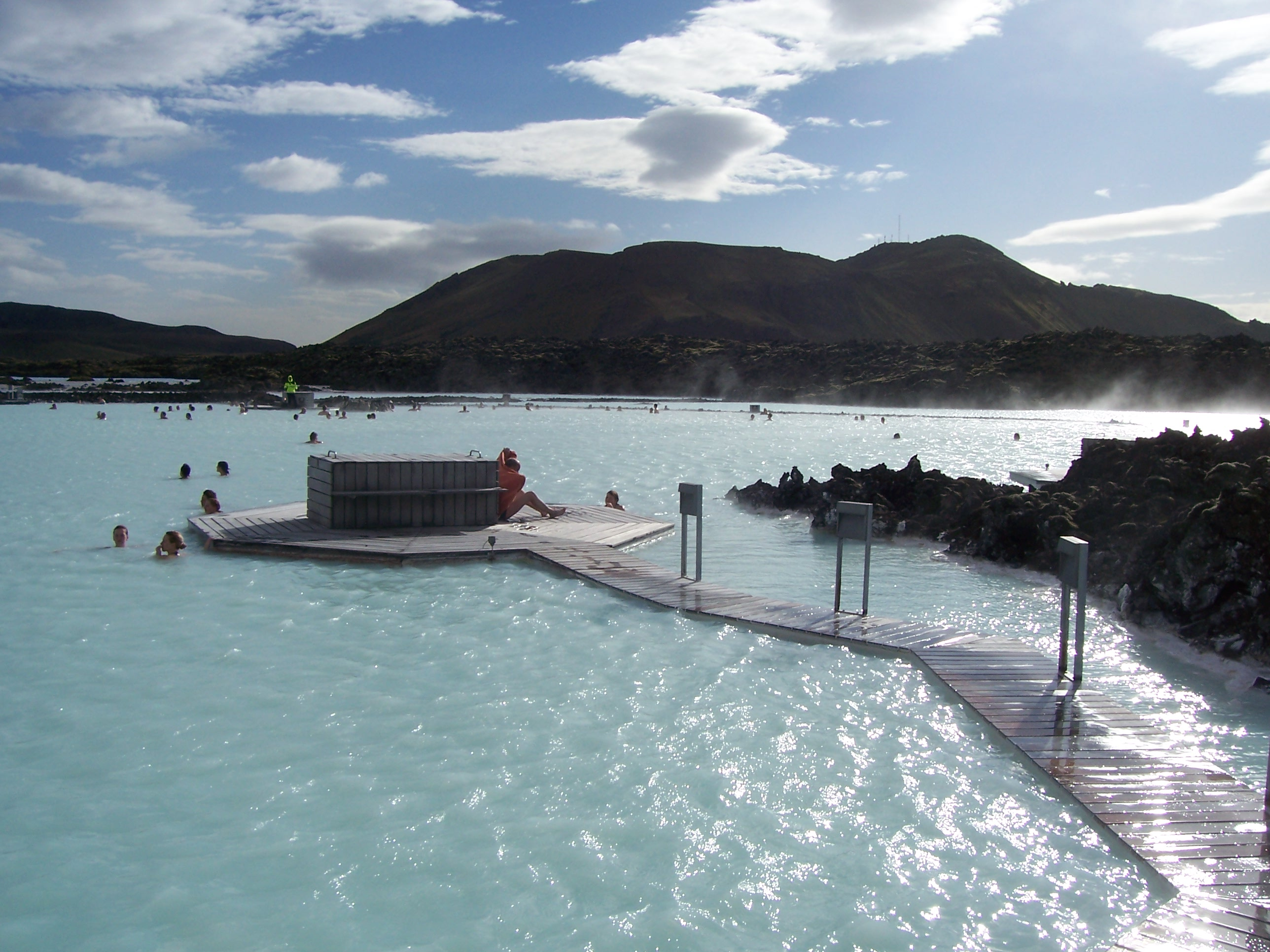 Blue Lagoon.